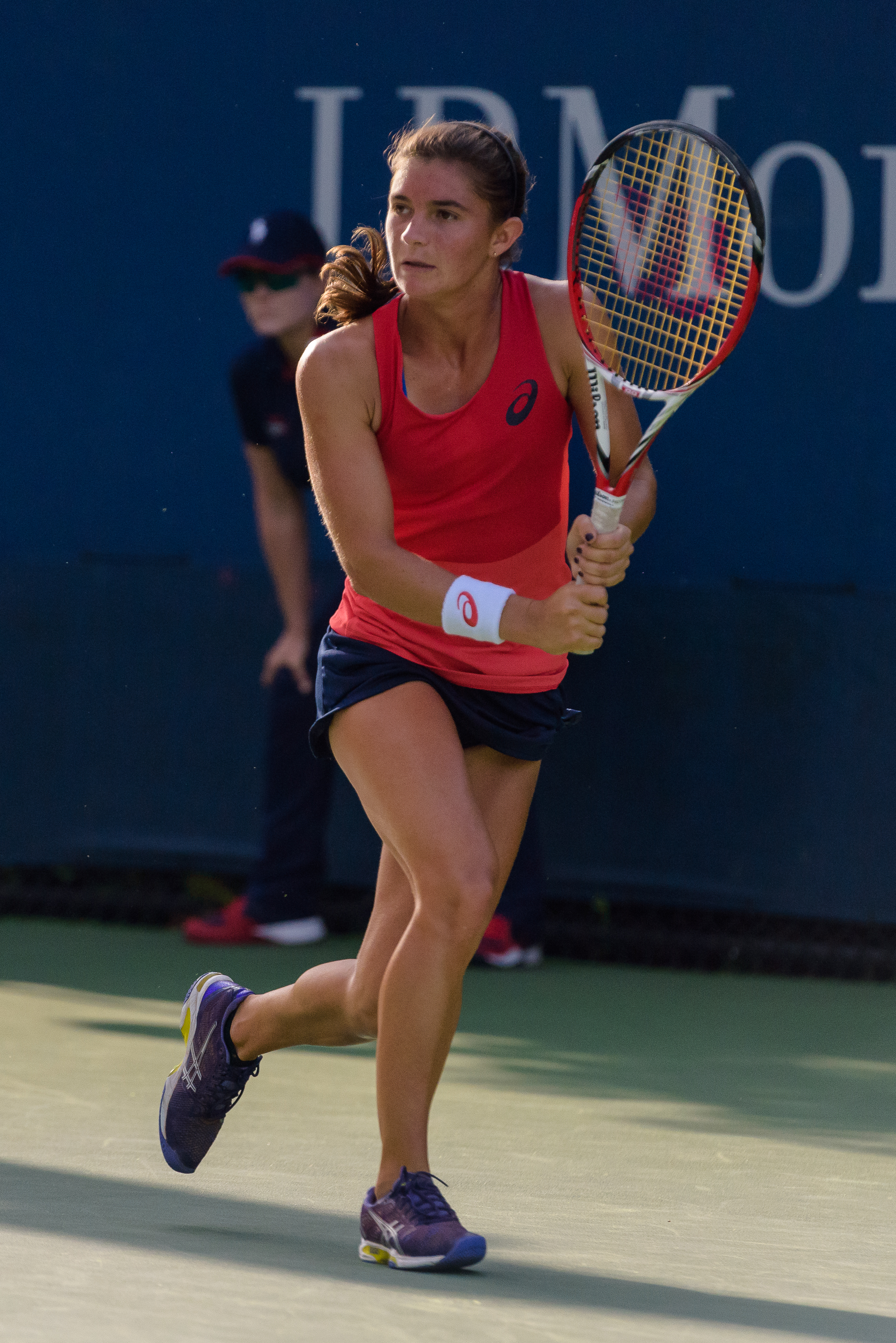 August 27, 2015 Court 14 Flushing, NY